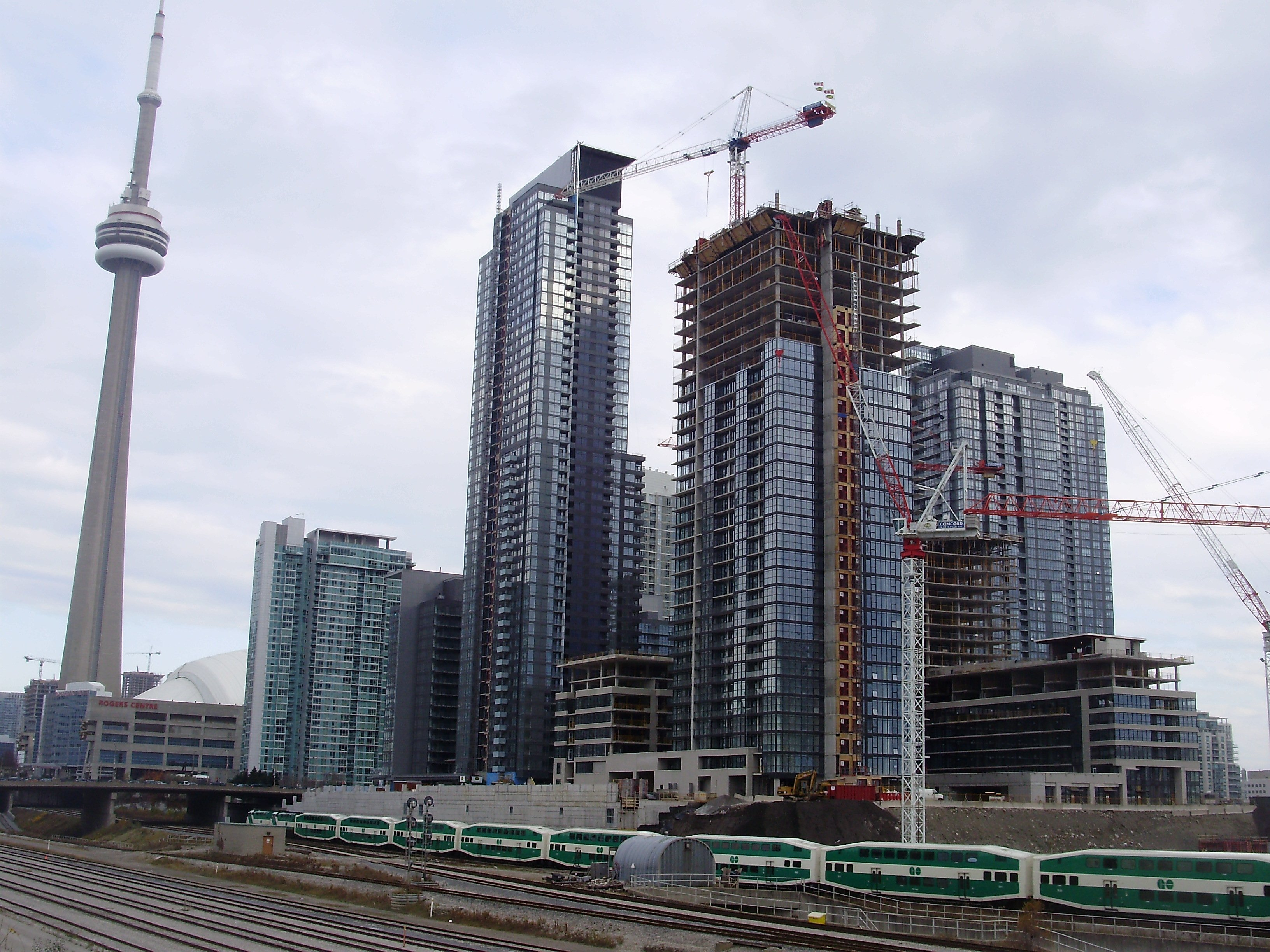 Photographed from Front Street West, condominium towers in varying stages of completion rise above an eastbound GO Transit train in the shadow of the CN Tower, in the CityPlace development of Toronto, Ontario, Canada.